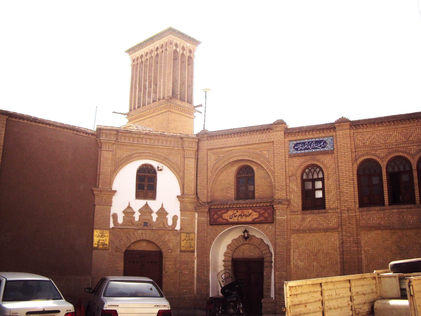 Anthropology Museum Of Qom